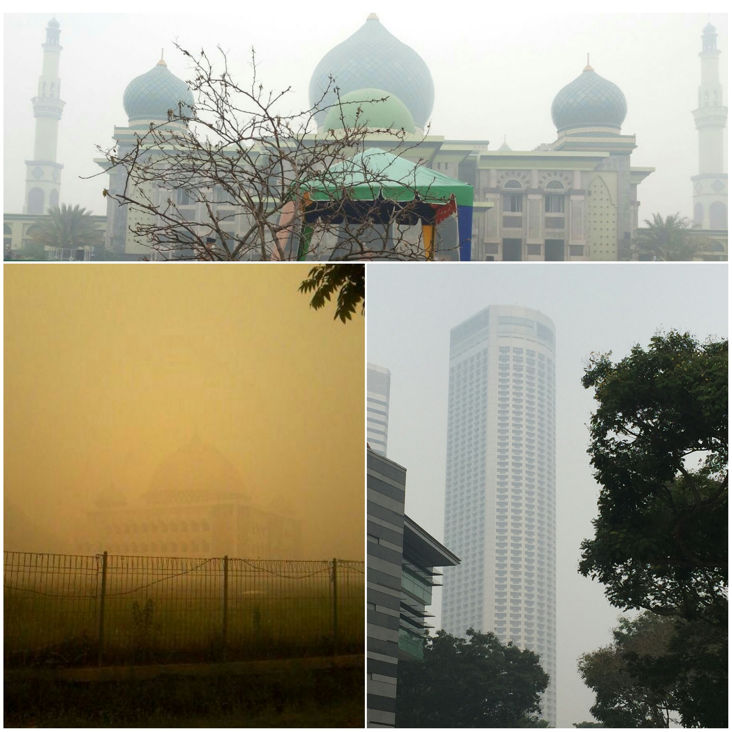 Collage of the South East Asia haze 2015. Made from 3 commons picture